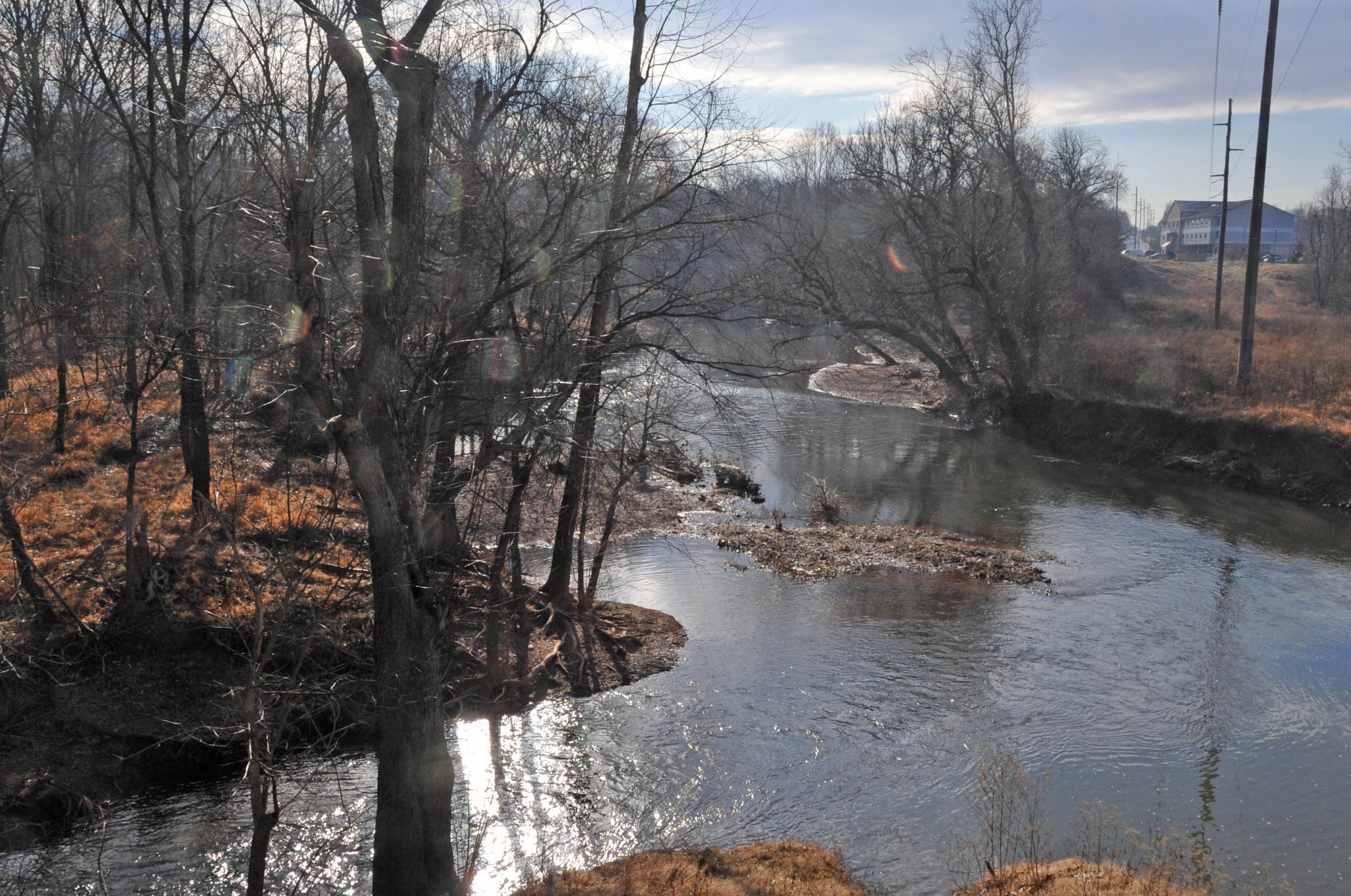 CONSTRUCTED BY SOUTH CAROLINA TROOPS AND USED DURING THE BATTLE OF BLACKBURN’S FORD AND THE FIRST BATTLE OF MANASSAS. THE ENTRENCHMENTS ARE NO LONGER VISIBLE AND THE PROPERTY IS INCORPORATED INTO QUAIL HOLLOW. IN THE RIGHT BACKGROUND IS A PORTION OF QUAIL HOLLOW DEVELOPMENT WHICH HAS INCORPORATED THE AREA INTO THEIR PROPERTY. THE CREEK IN THE PICTURE IS BULL RUN CREEK